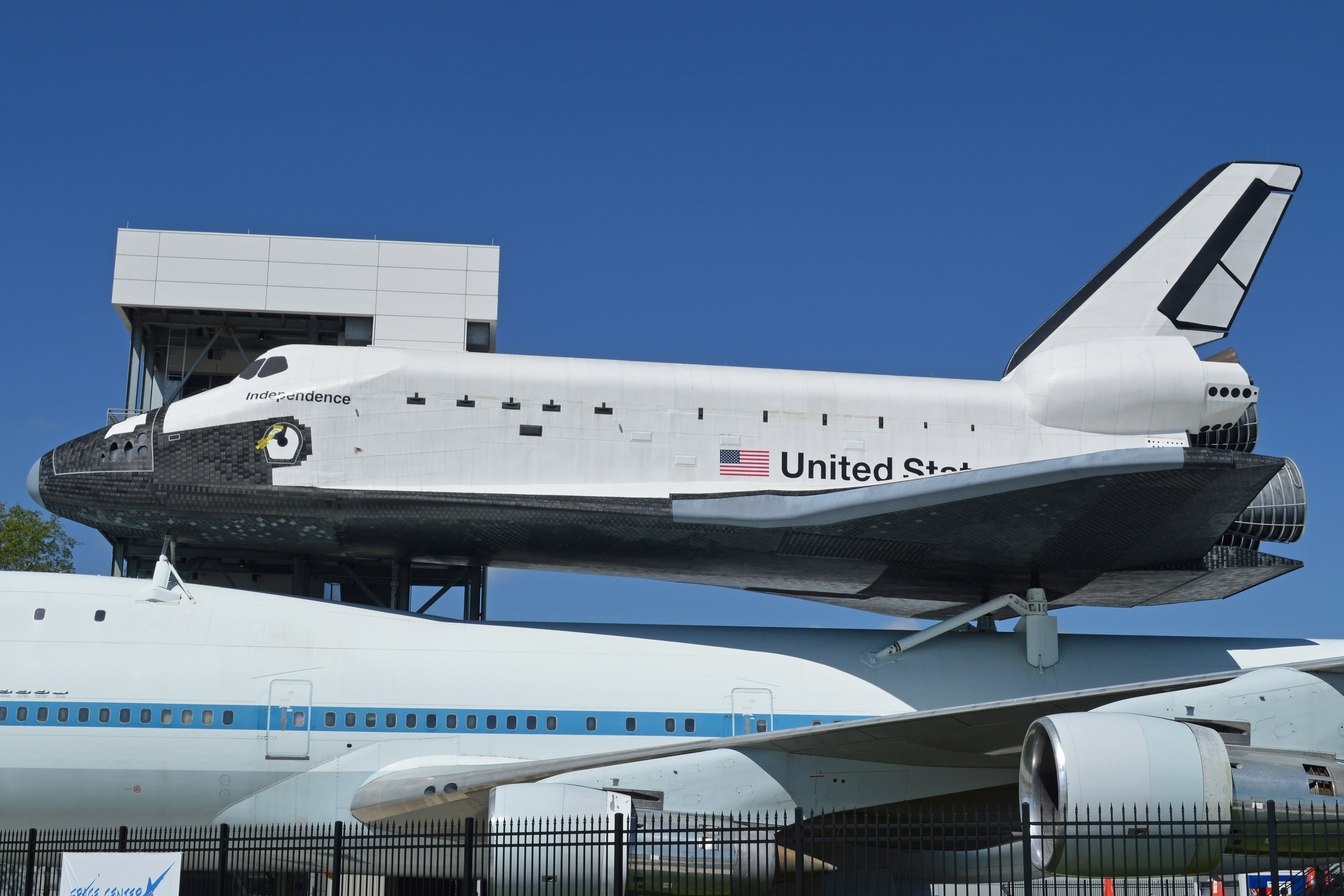 This is a full size replica built to a high standard in 1993 using NASA blueprints. It was originally named “Explorer” and was displayed at the Kennedy Space Centre, Florida, from 1993 to 2012, when it was replaced by the genuine Orbiter “Atlantis”. It was then transferred by barge to the Lyndon B Johnson Space Centre where it was refurbished and renamed as the “Independence”. In 2016 it was mounted on the genuine Boeing 747 shuttle carrier ‘N905NA’. On display at Space Centre Houston, Lyndon B Johnson Space Centre, Houston, Texas, United States. 20th March 2017